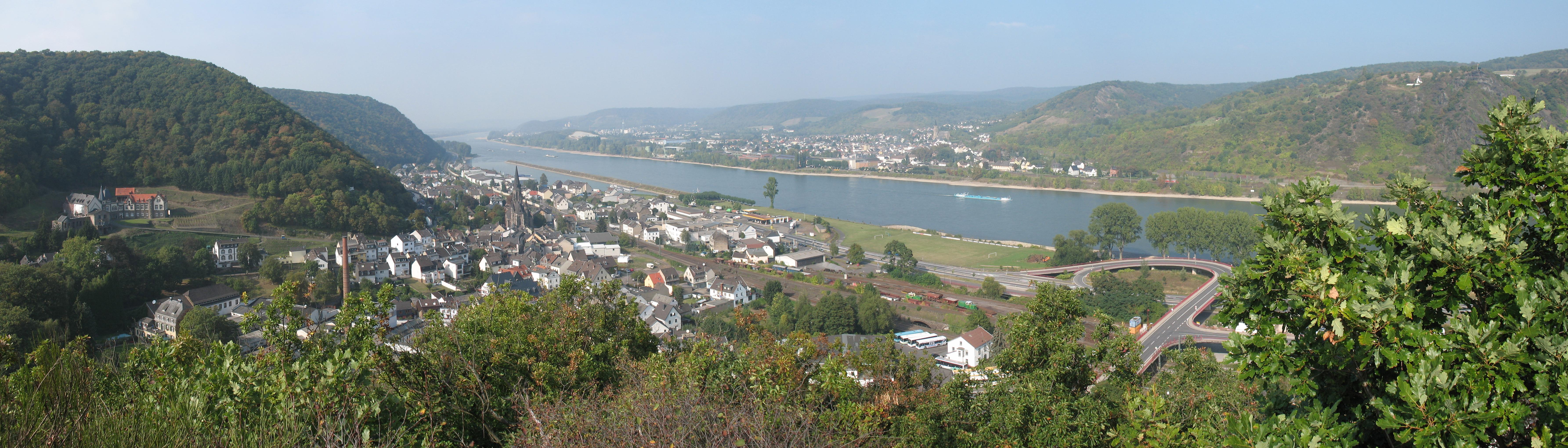 Panoramic view in Brohl-Lützing in Rhineland-Palatinate, Germany